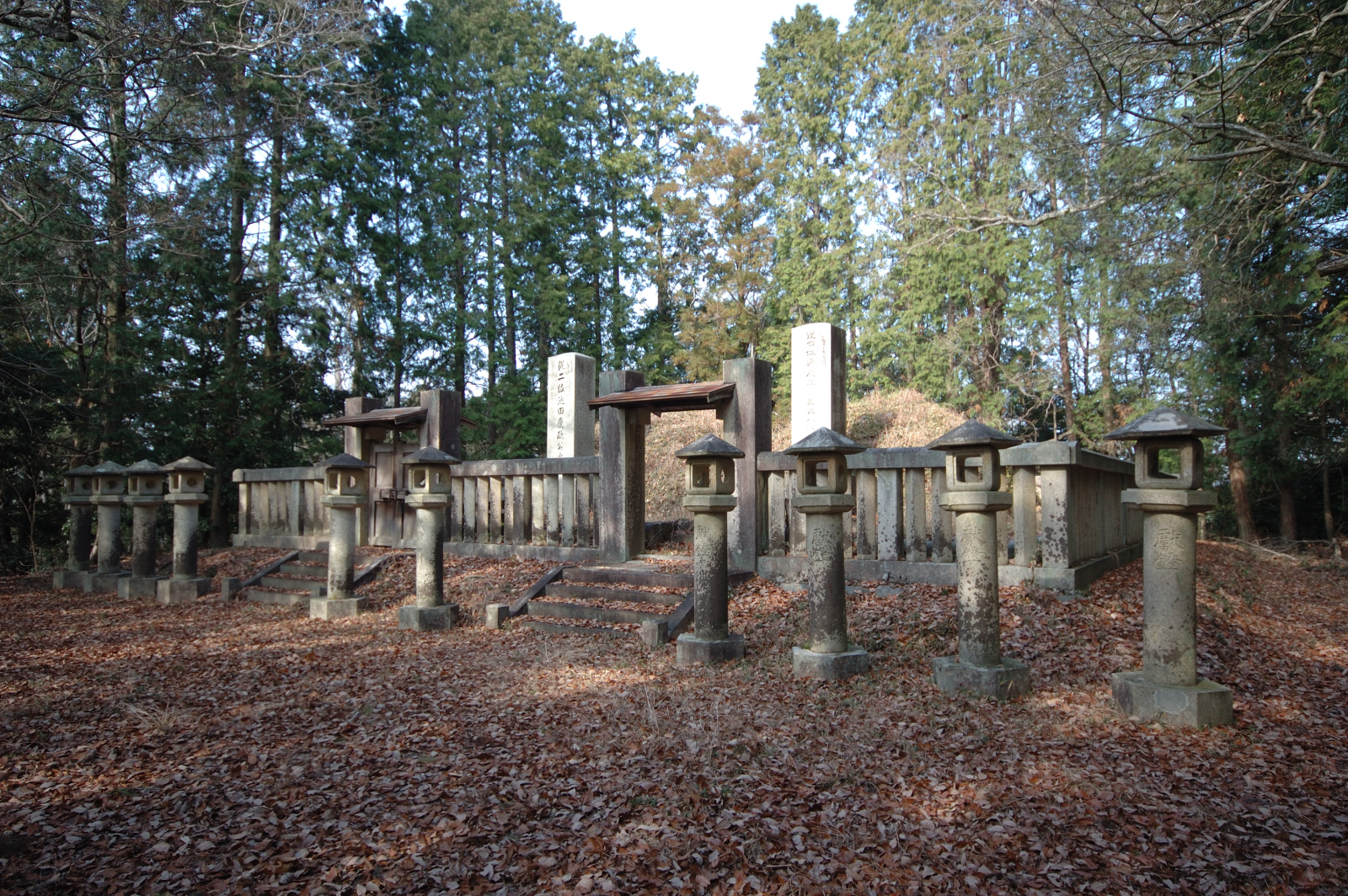 Yon-no-oyama,graves of Ikeda Yoshimasa(left side) and his wife